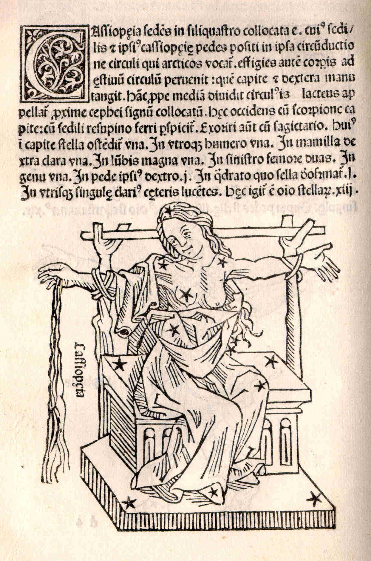 Woodcut of Cassiopeia from Hyginus' Poeticon Astronomicon